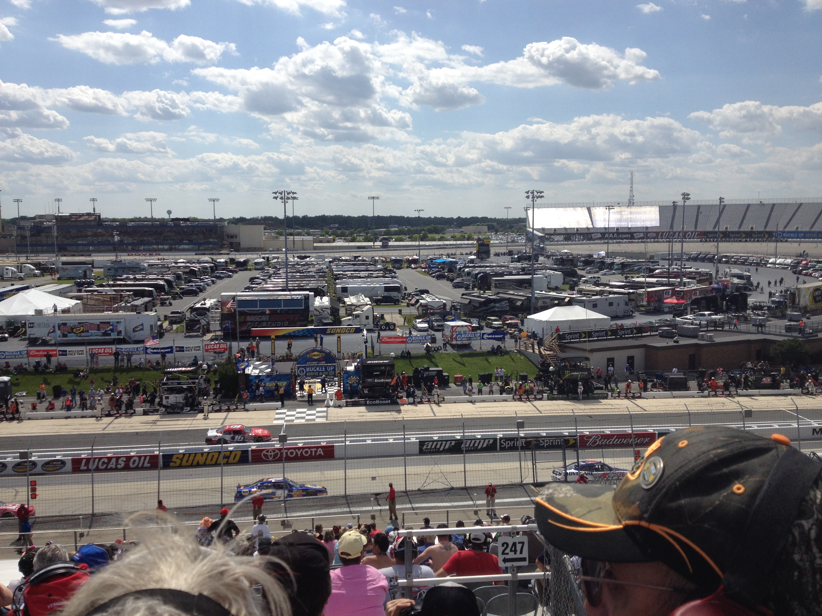 The 2014 Buckle Up 200 at Dover International Speedway viewed from the frontstretch. Trevor Bayne (#6) and Chase Elliott (#9) drive by on the track while Ryan Reed (#16) drives down pit road.